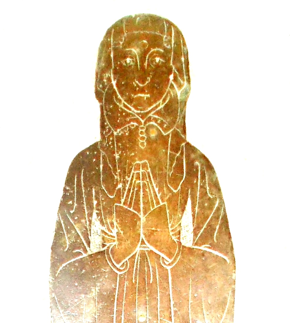 Modified photograph of a detail of the 1546 memorial brass image of Elizabeth Buttry (the last prioress of Campsea Ash priory in Suffolk, UK), who died in 1546 and was buried at St Stephen's church in Norwich, Norfolk, UK. English work.